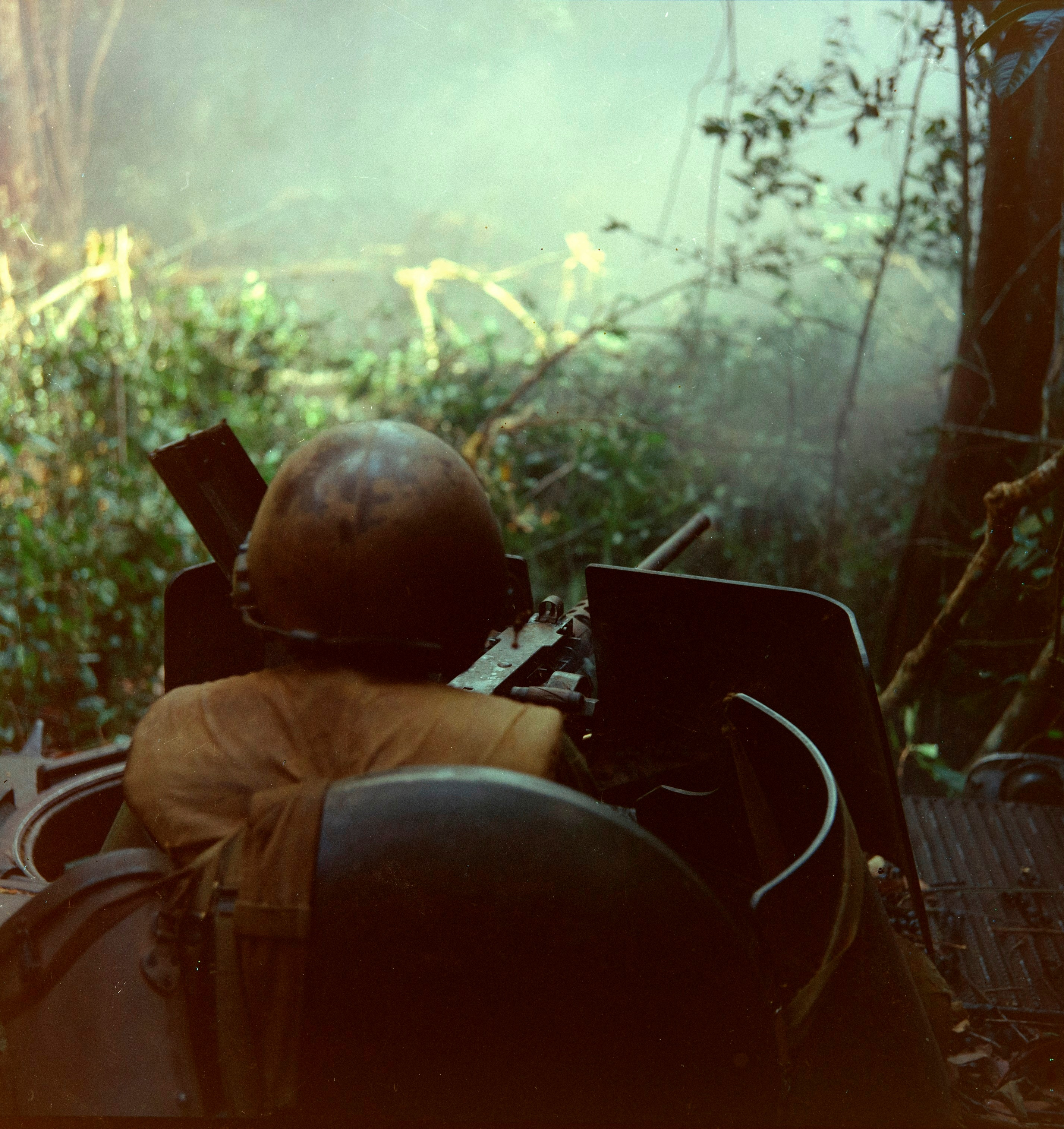 SSG Harry F. Mitchell (Austin, TX) , a platoon sergeant with C Troop, 1st Squadron, 11th Armored Cavalry Regiment (ACR), returns fire with a 50 caliber machine gun mounted on a M113 Armored Personnel Carrier. The 11th ACR was conducting a search and destroy mission in the “Iron Triangle” as a part of Operation “Junction City”. The Iron Triangle was also known as War Zone” D “and is approximately 20 miles northwest of Saigon, Republic of Vietnam.